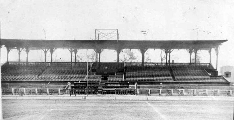 Grandstand of the "Estadio Inglés" of Lima, Peru